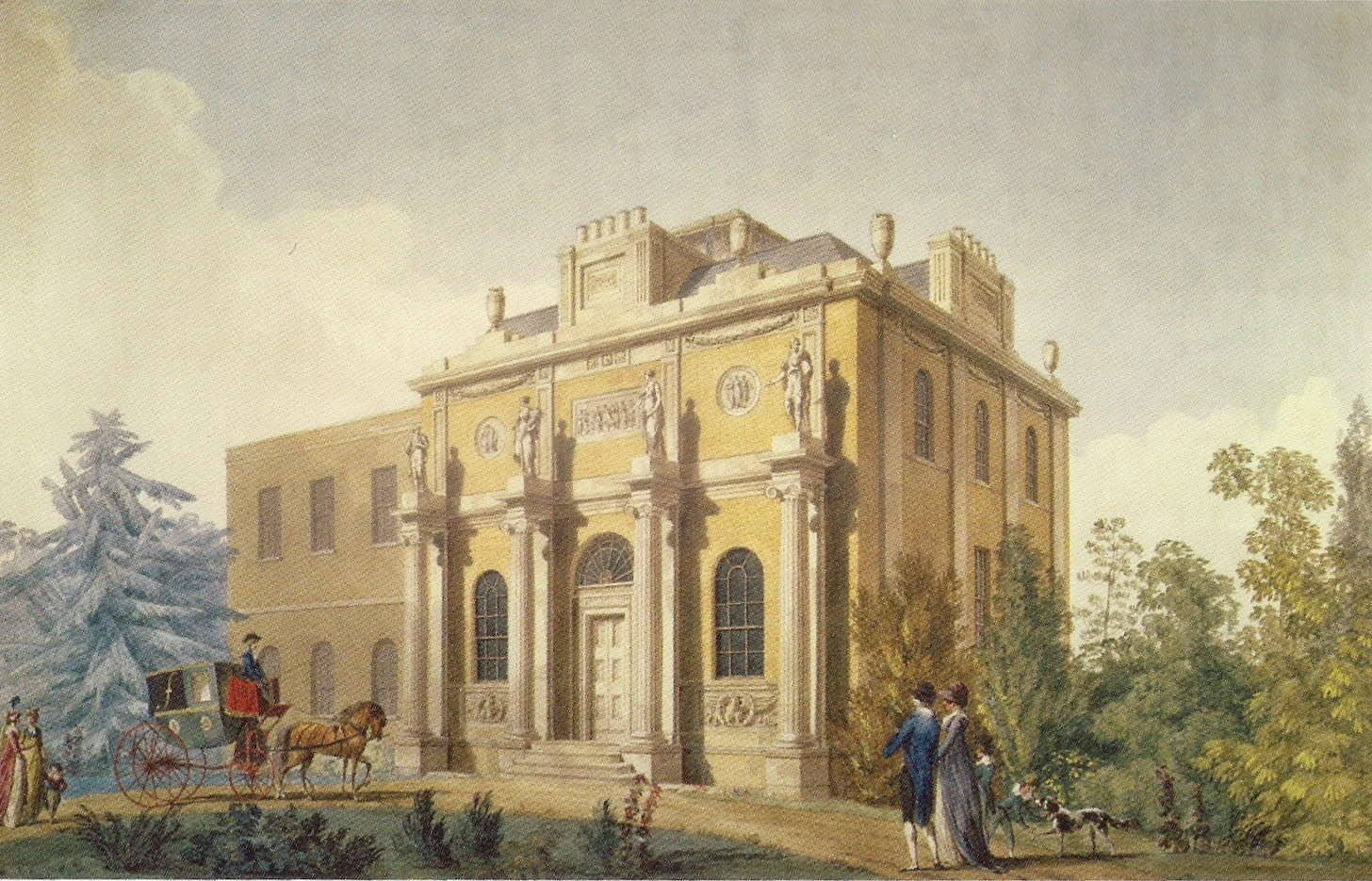 "The Entrance Front at Pitzhanger Manor." The watercolor drawn by Joseph Michael Gandy in about 1800.